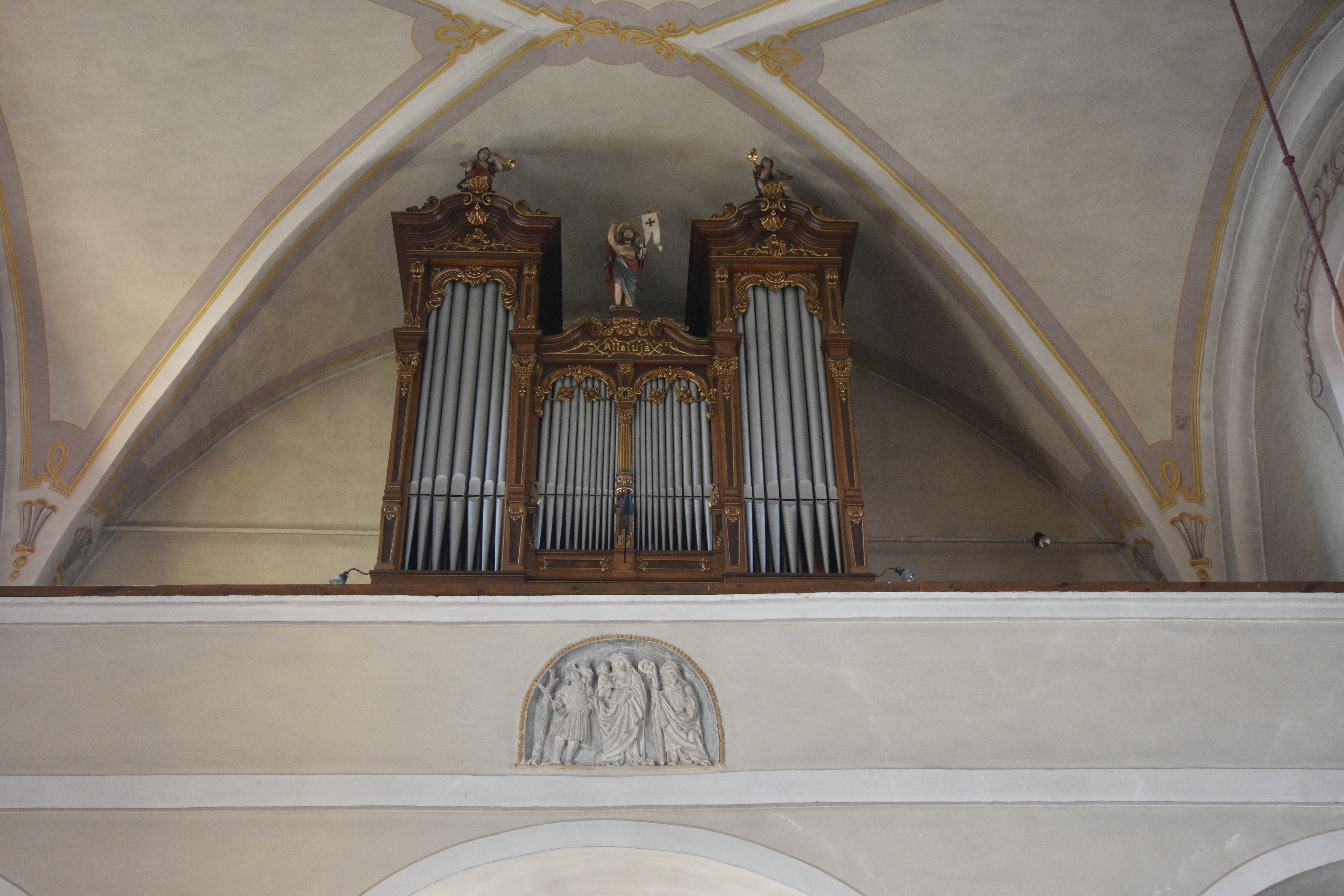 Pfarrkirche Trautmannsdorf interieur